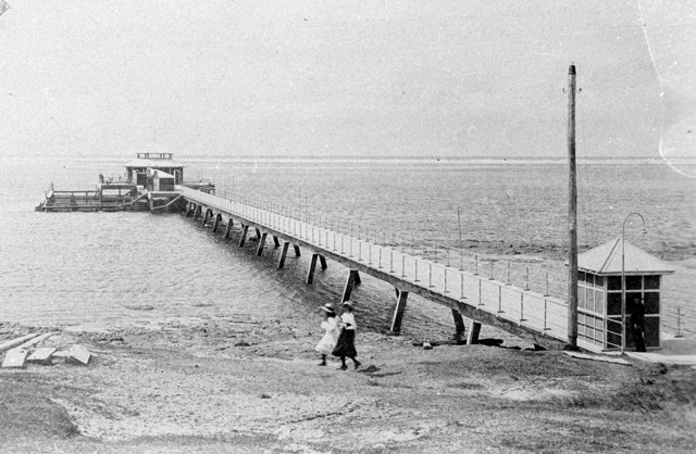 Looking west along the Southport Pier, circa 1915, Gold Coast, Australia